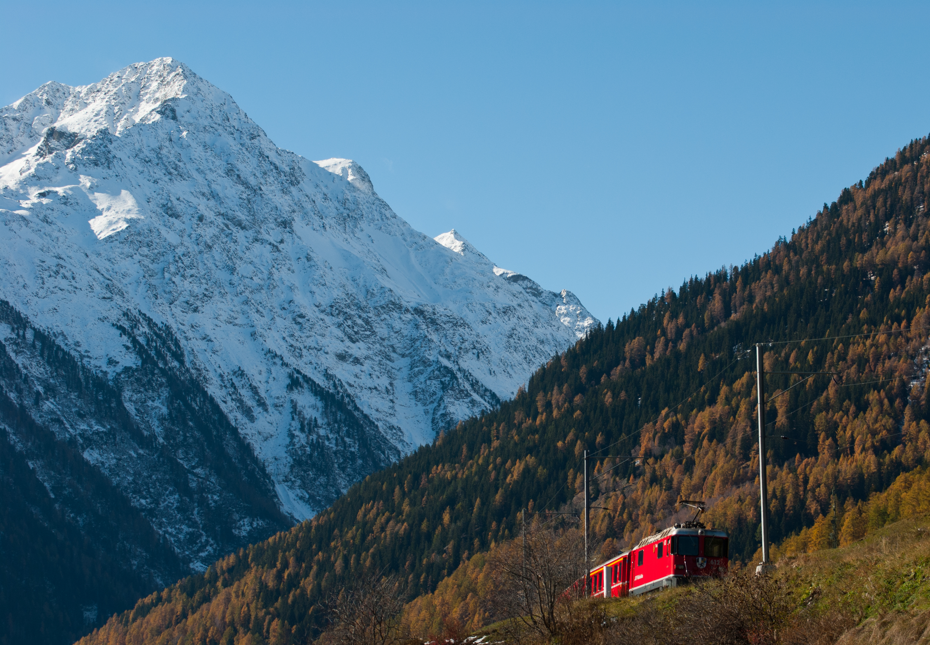 Piz dal Ras (3028m) from NE with train of the Rhaetic railway